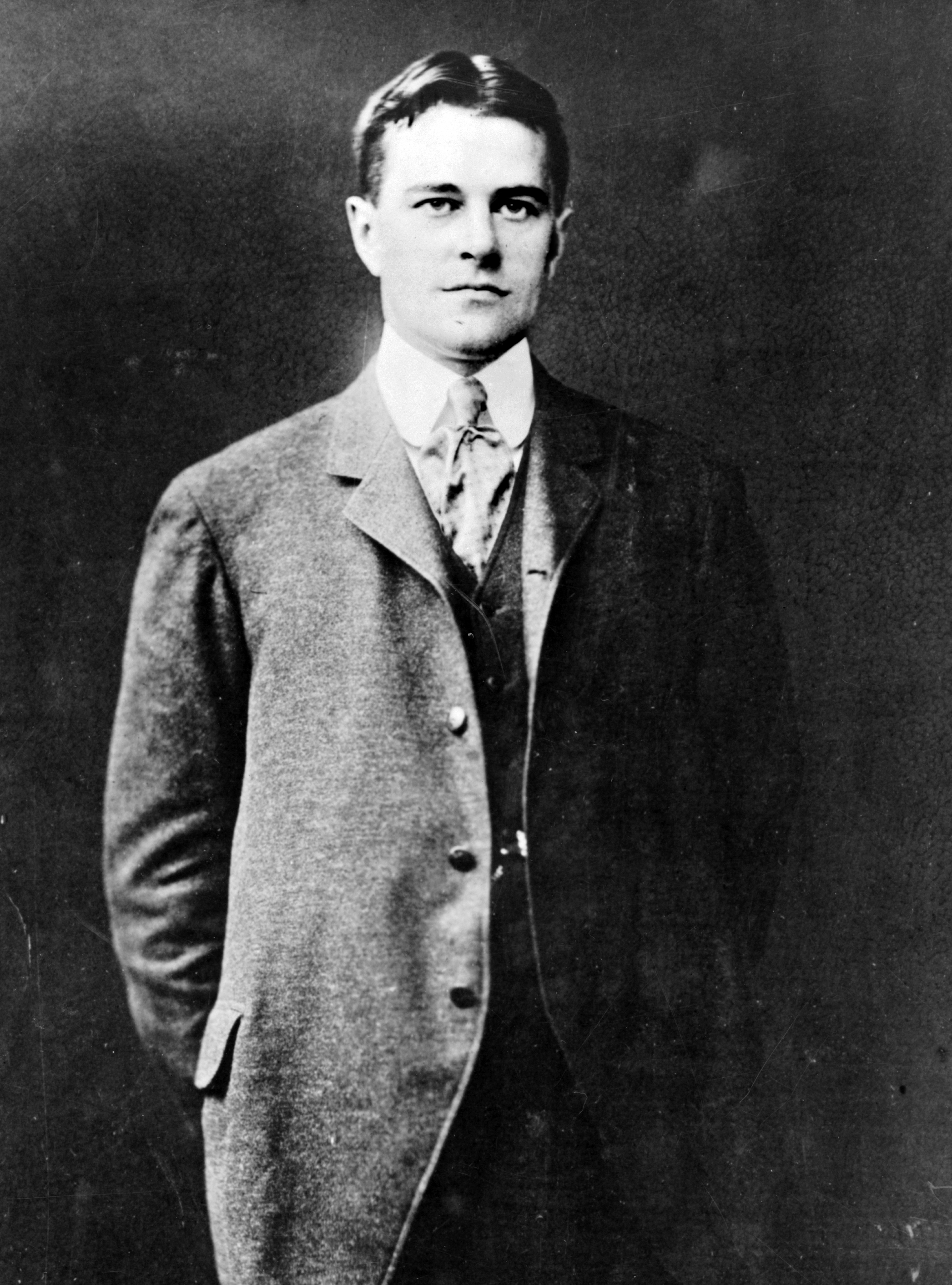 Author Albert Payson Tehune